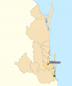 Incorporates or developed using Administrative Boundaries ©PSMA Australia Limited licensed by the Commonwealth of Australia under Creative Commons Attribution 4.0 International licence (CC BY 4.0). Derived from State and Territory Boundaries from the Australian Bureau of Statistics under Creative Commons Attribution 2.5 Australia license (CC BY 2.5 AU)